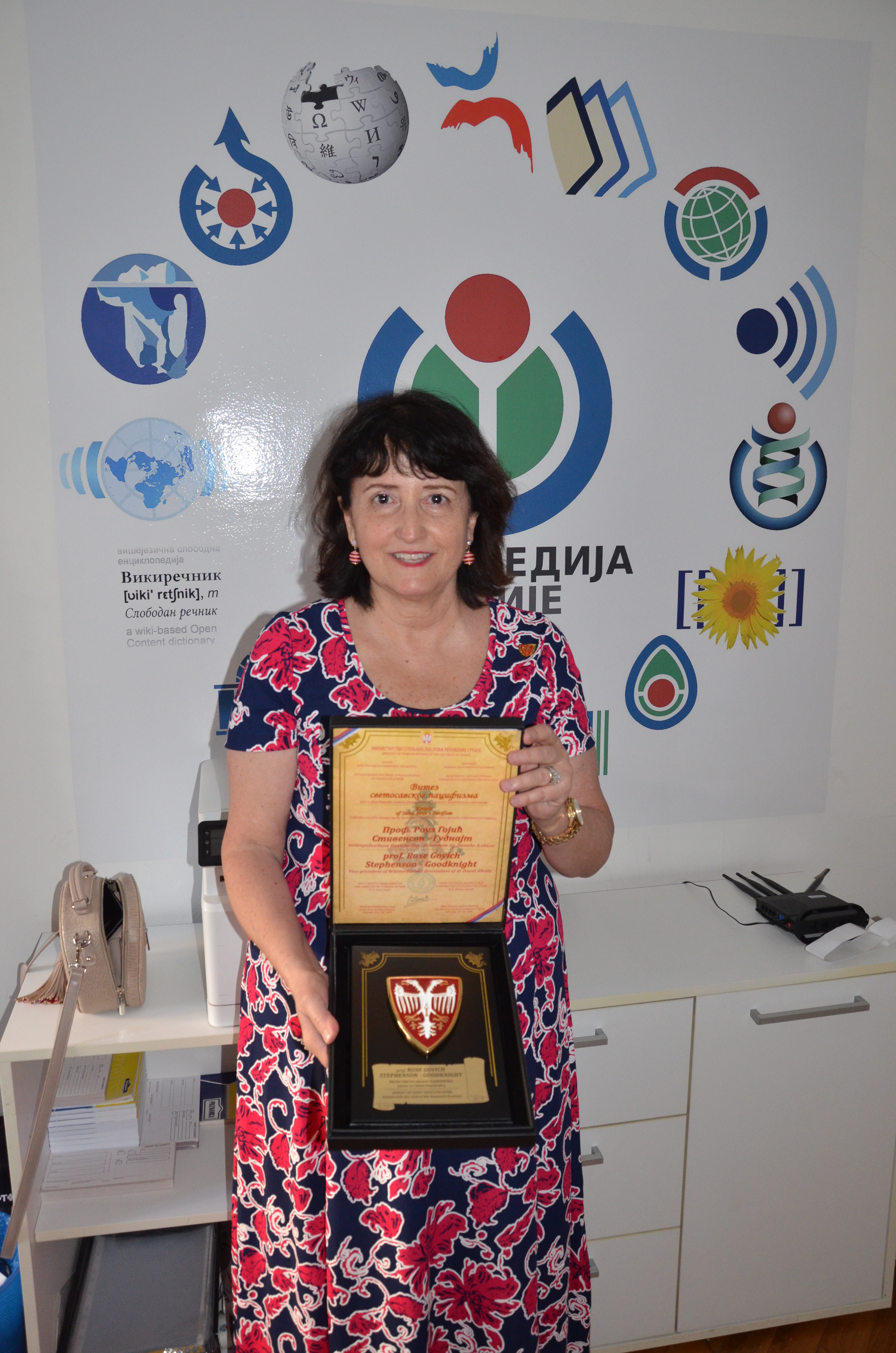 Knight of Saint Sava's pacifism awarded to Rosie Goyich Stephenson-Goodknight, descendant of dr David Albala by the Ministry of foreign affairs of the Republic of Serbia